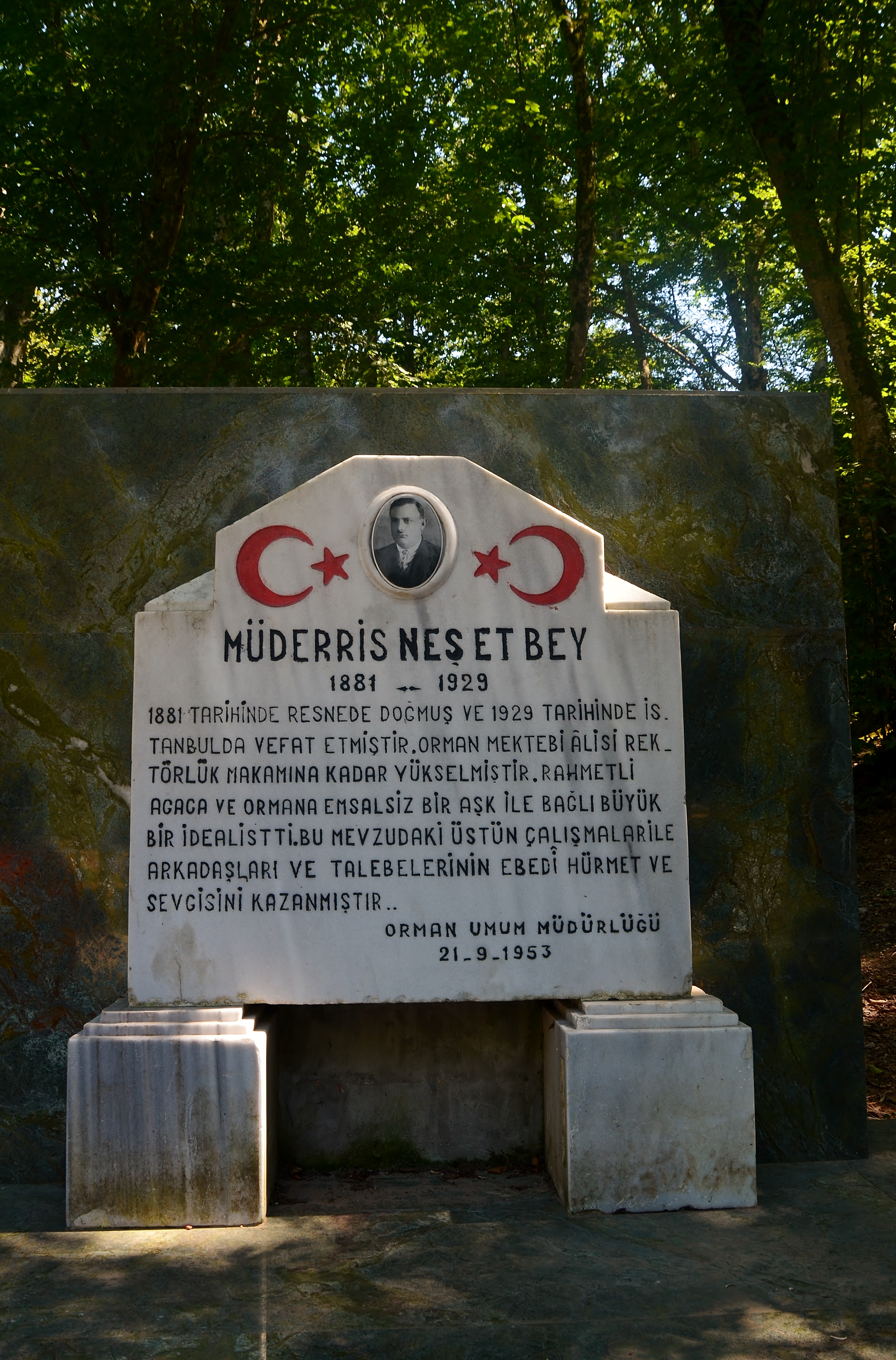 Brief biography of Teacher Neşet on memorial stone in the Neşetsuyu Nature Park inside the Belgrad Forest in Sarıyer, Istanbul, Turkey